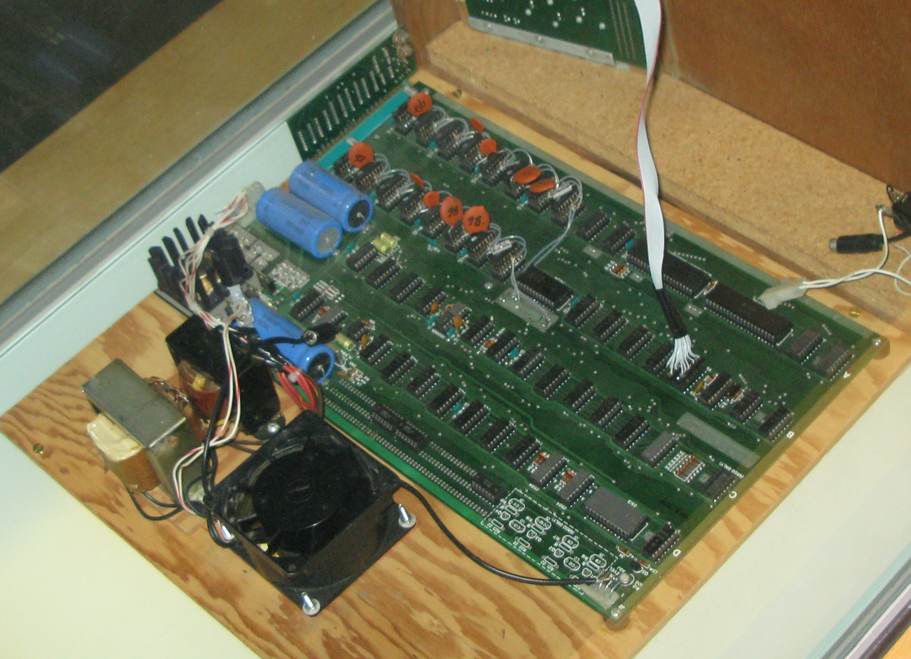 The circuit board on an assembled Apple I. According to vectronicsappleworld it has an Apple Cassette Interface Card.